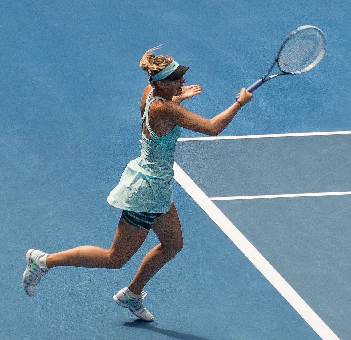 Australian Open 2014